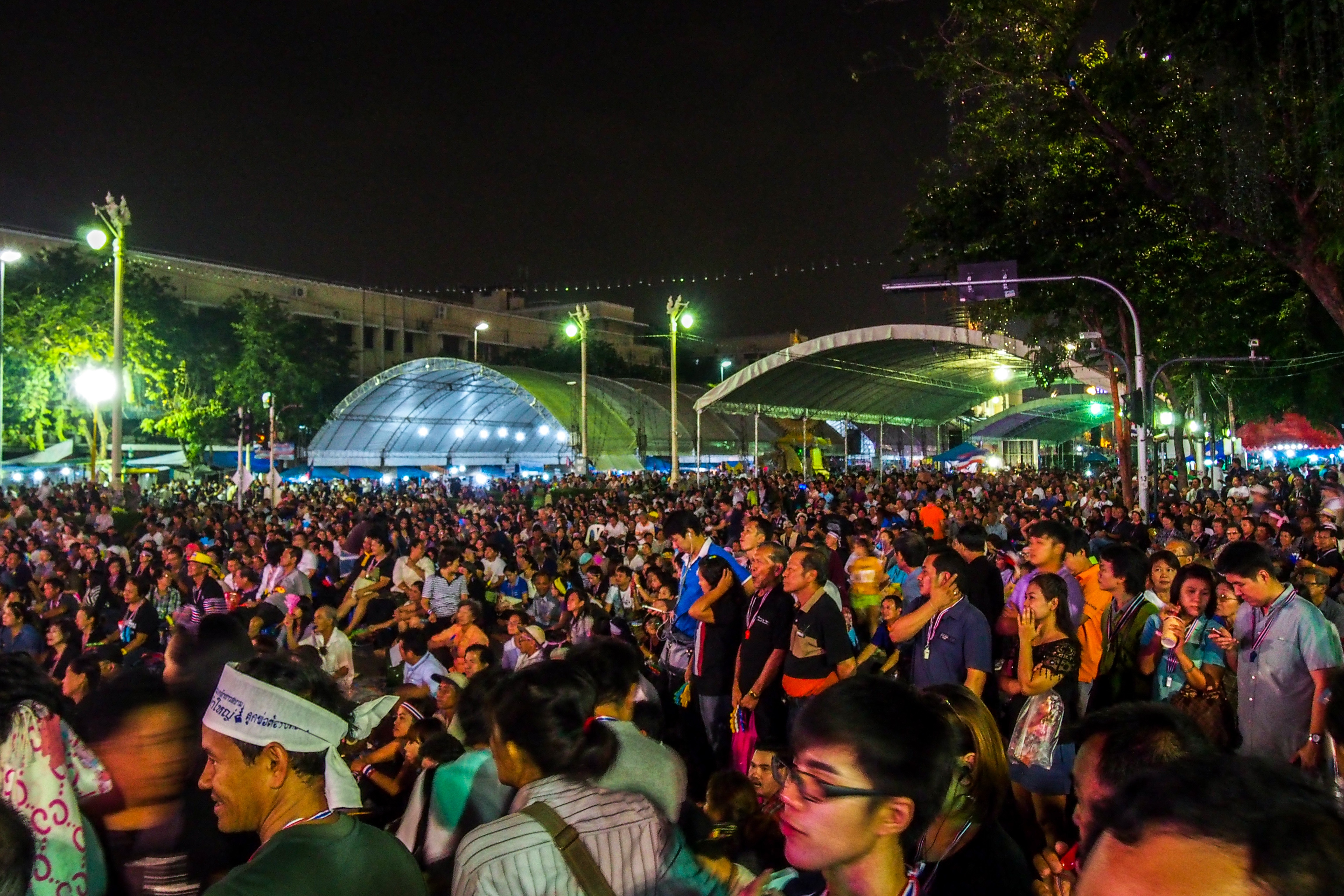 Bangkok protests at the Democracy Monument